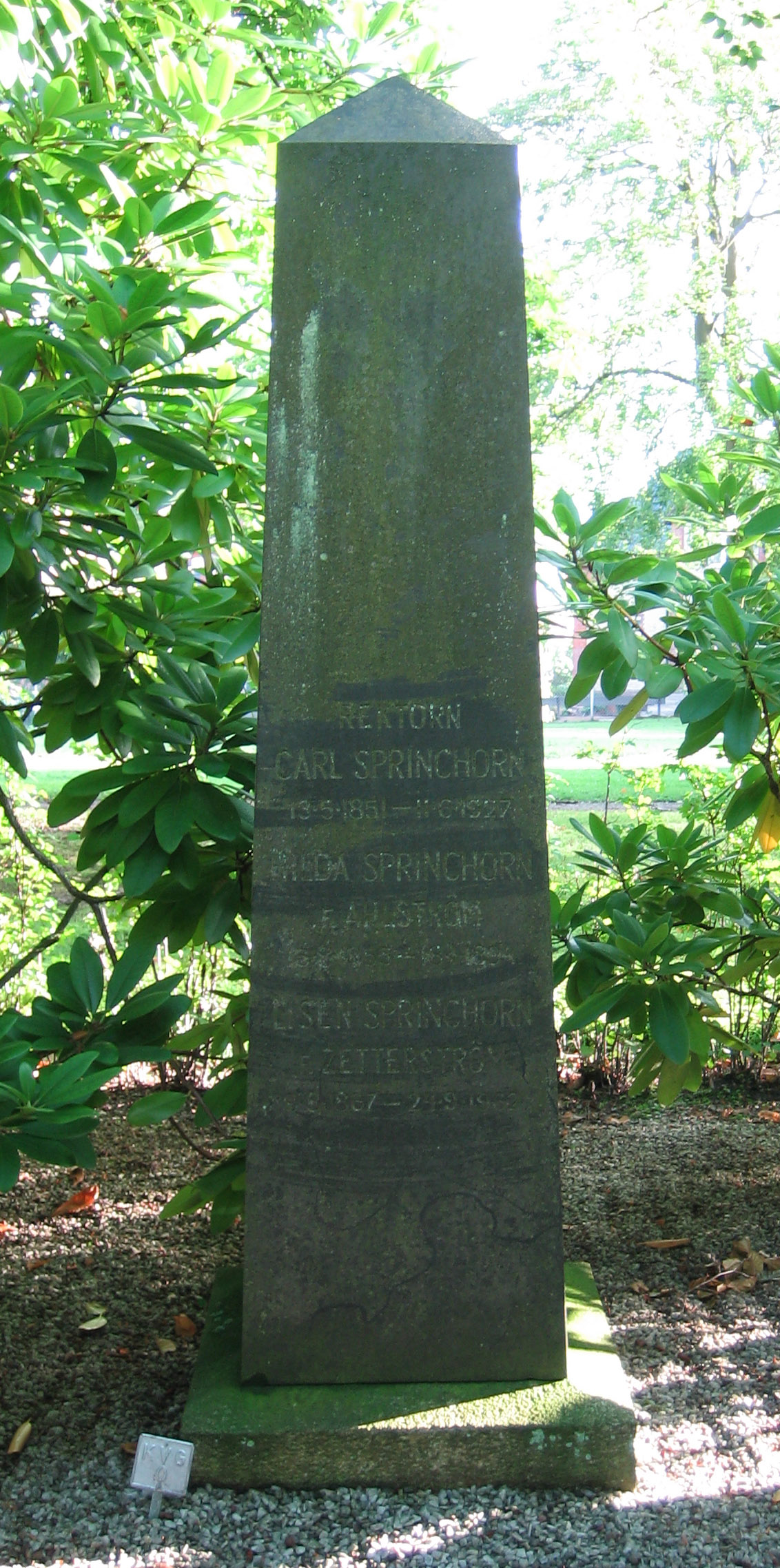 The grave of swedish historian Carl Sprinchorn (1851-1927). Photo taken on Norra kyrkogården in Lund, Sweden 080826 by the uploader.